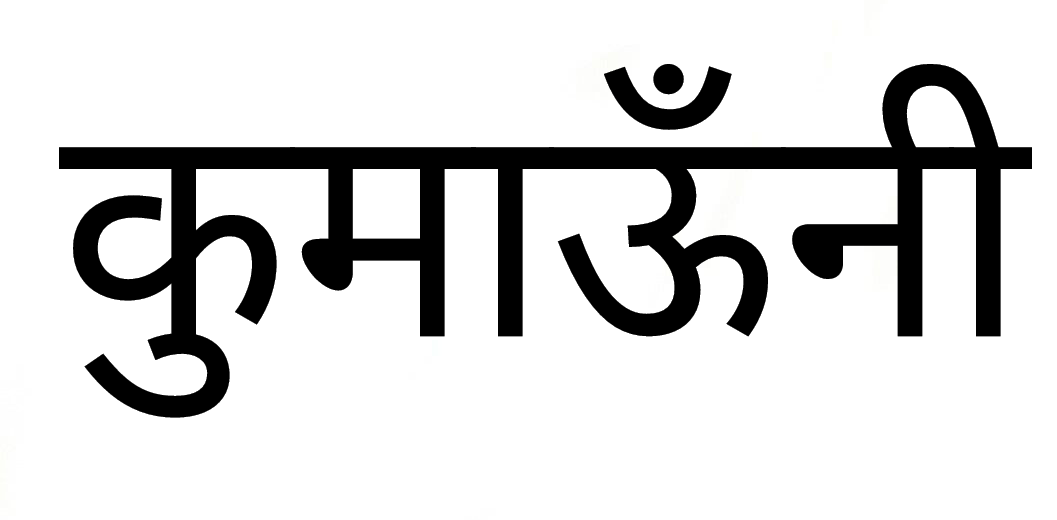 a indian language(kumaoni)a central pahari language of indian state uttarakhand "kumaoni" written in kumaoni language